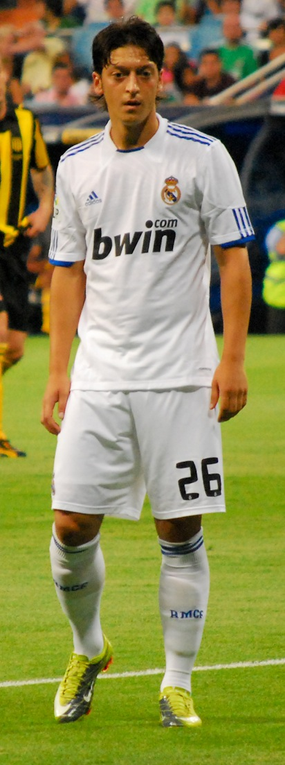 Mesut Özil in Real Madrid 2 - 0 Peñarol. The size of this image was adjusted by Photoshop. The original photo was taken by Jan S0L0 in Chamartín,Madrid.